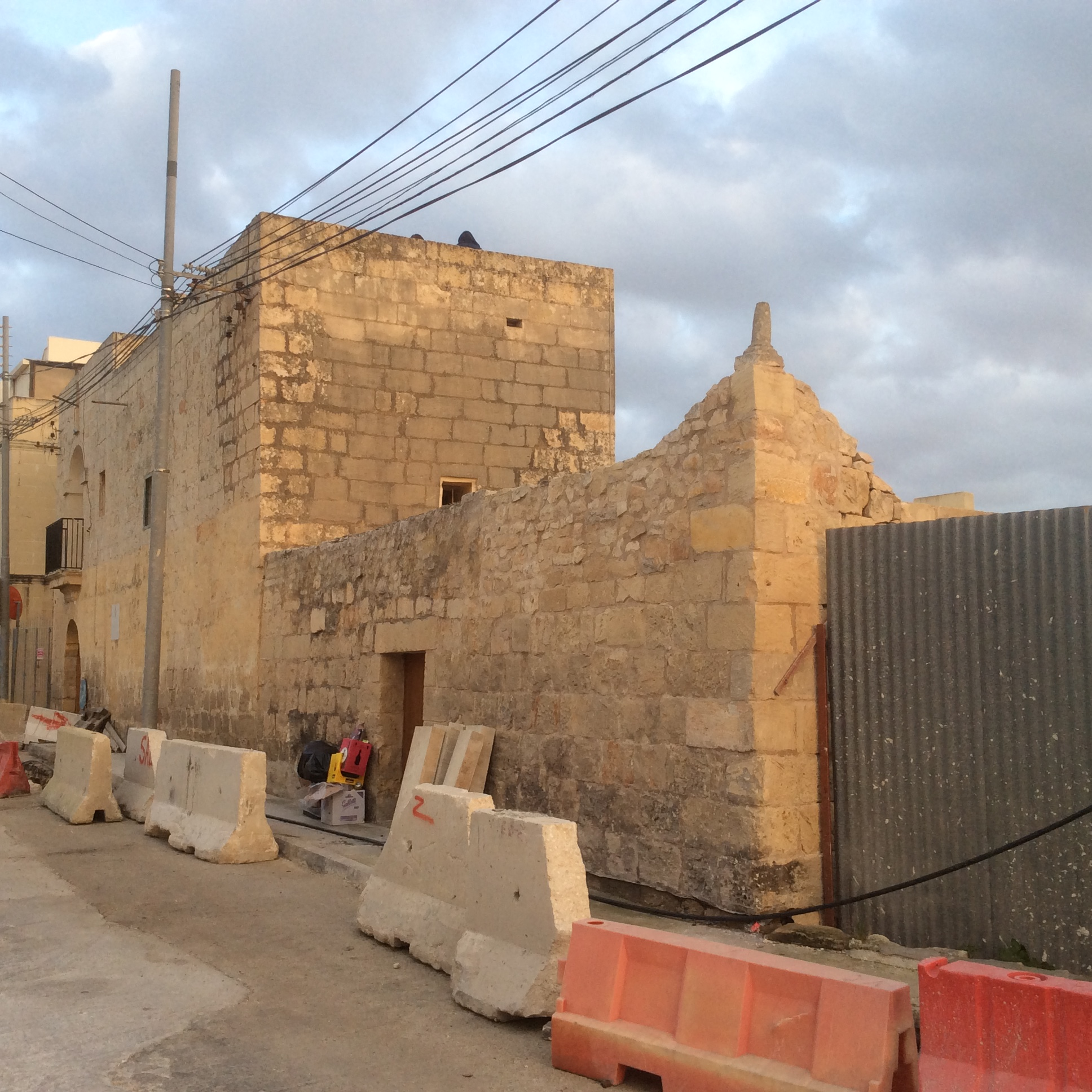 Ta Xindi Farmhouse. Road works, San Gwann